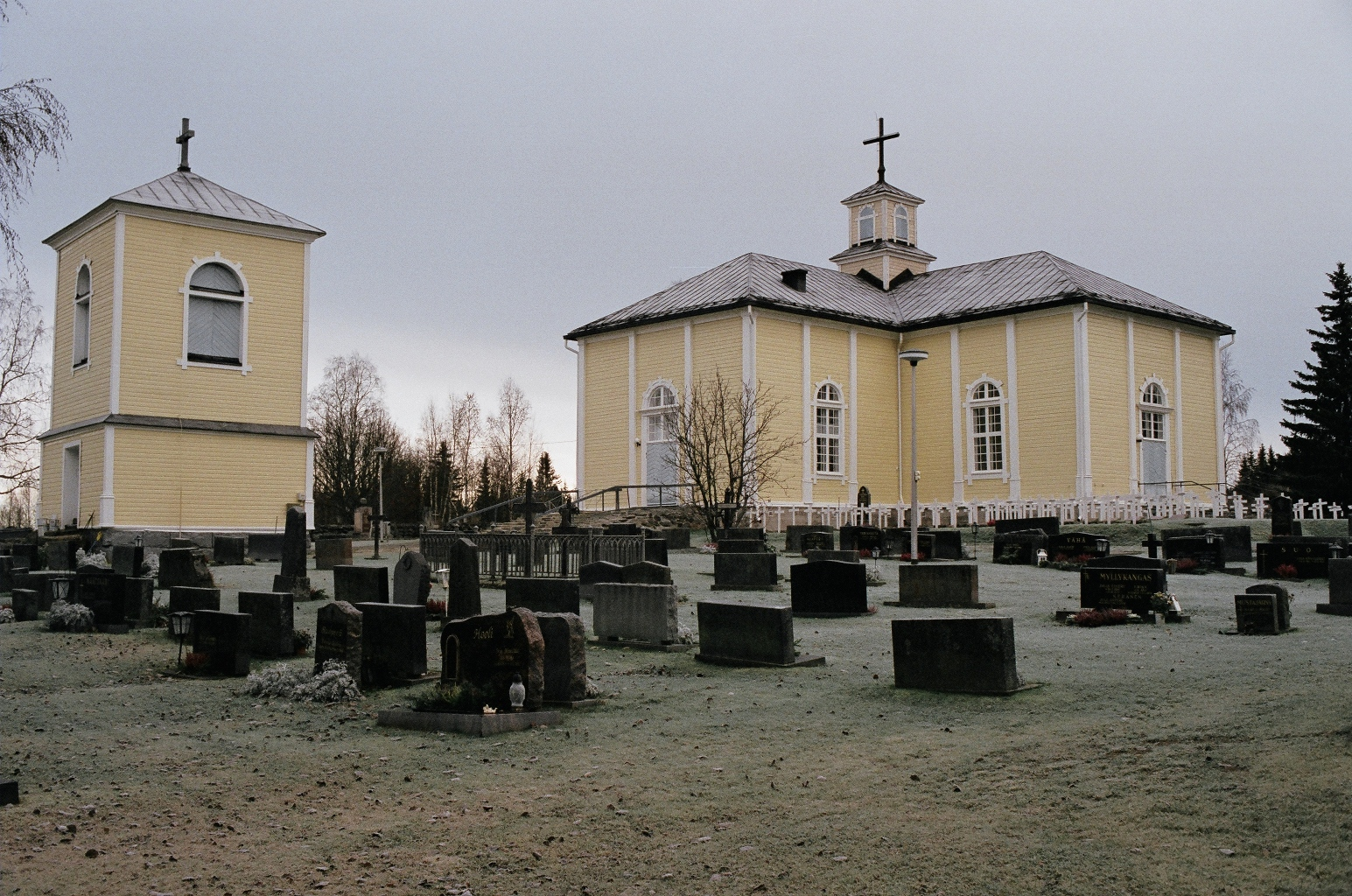 The church of Karunki in Tornio, Finland. Designed by architect Anton Wilhelm Arppe, it was completed in 1817.